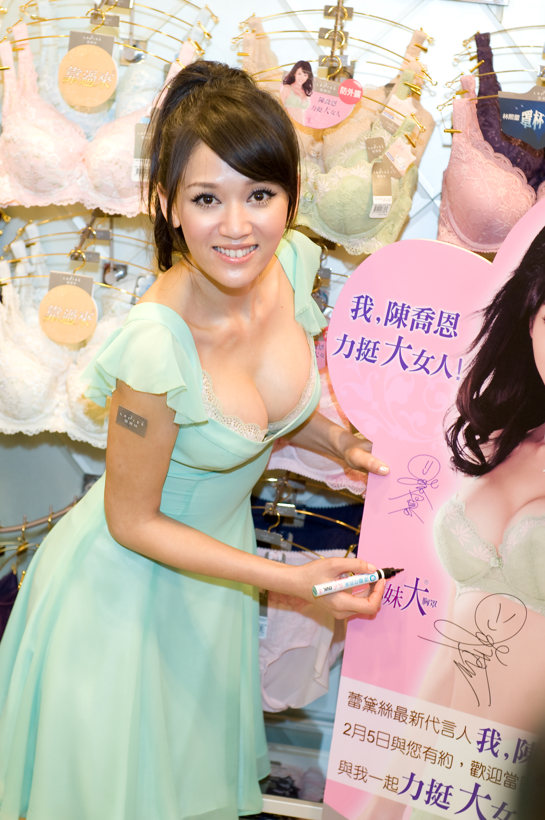 Joe Chen